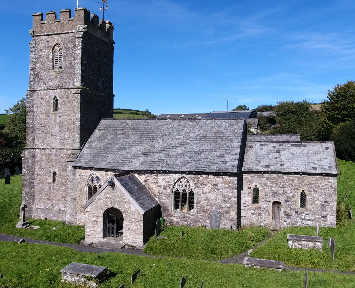 St Mary's Church, Molland, Devon. Aerial view from south. Foreground in front of south porch: 1856 chest-tomb of Quartly family of Great Champson and West Molland Barton.